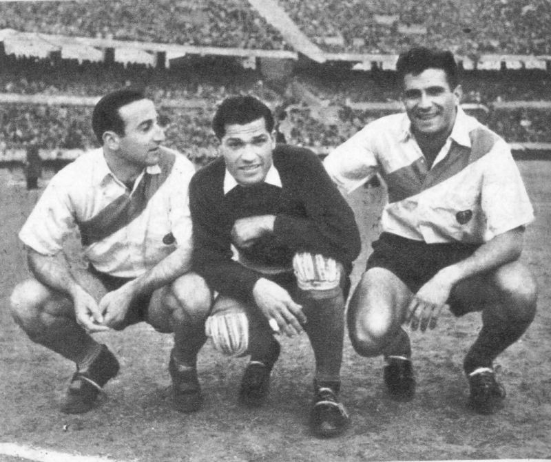 River Plate players from left to right: Ricardo Vaghi, José Soriano and Eduardo Rodríguez.